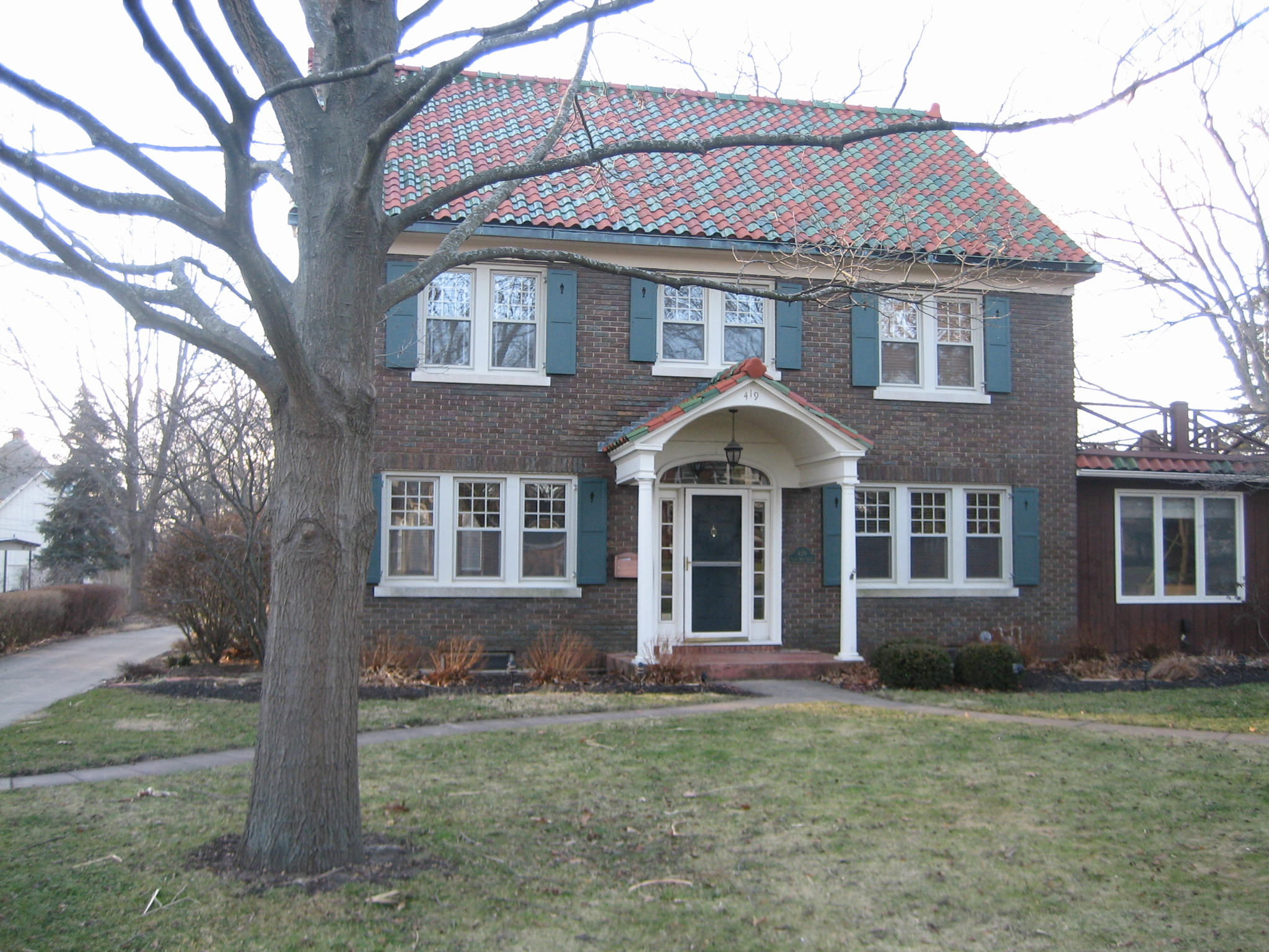 419 S. Main St., Elmore Cooper House, Sycamore, Illinois. Sycamore Historic District, National Register of Historic Places.